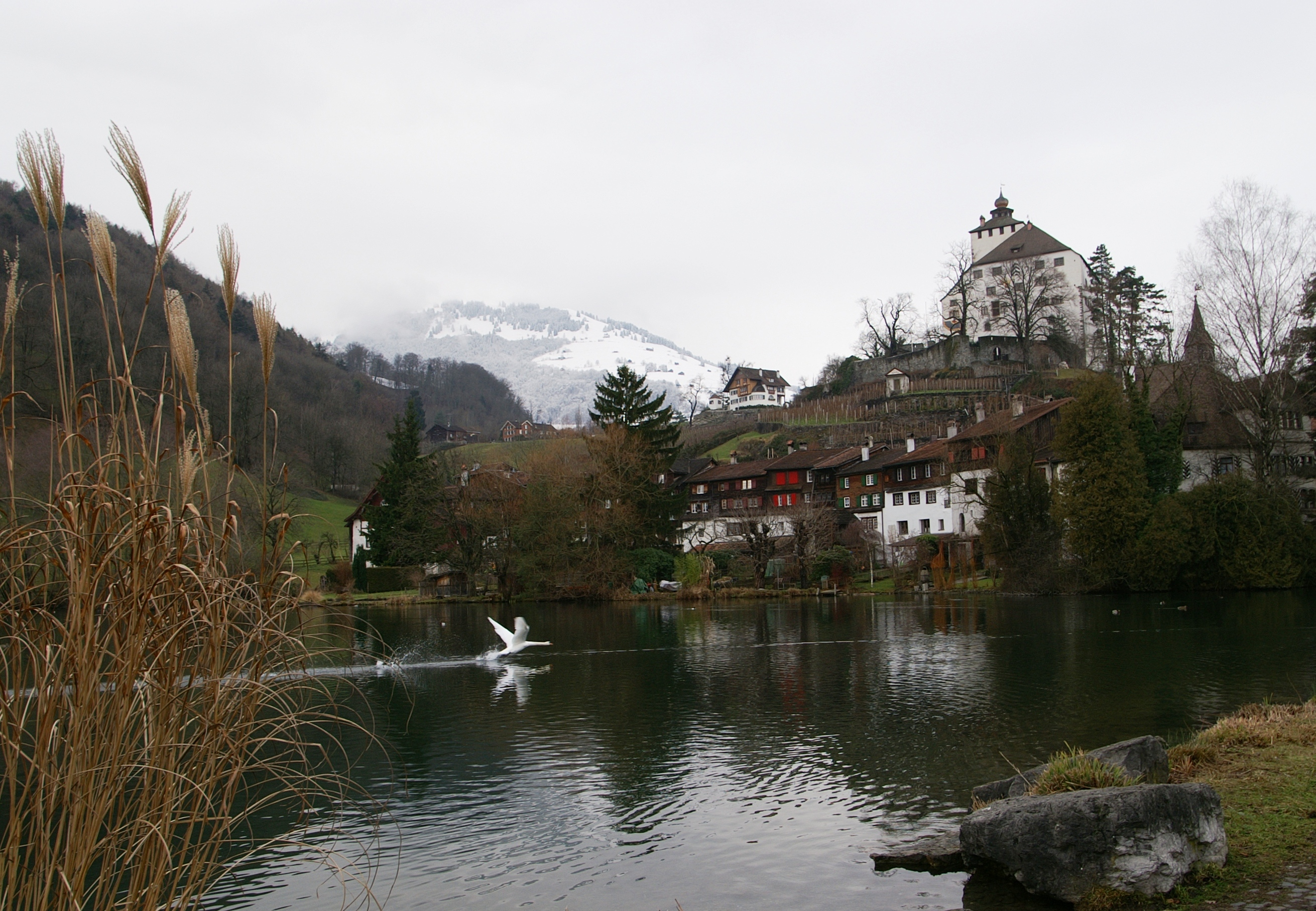 Werdenberg, town, castle and Werdenbergersee, in Grabs, Switzerland.